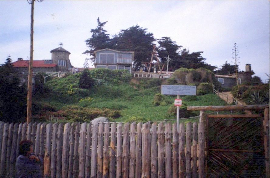 The Casa de Isla Negra - Pablo Neruda's house-museum in Isla Negra. El Quisco, Chile.